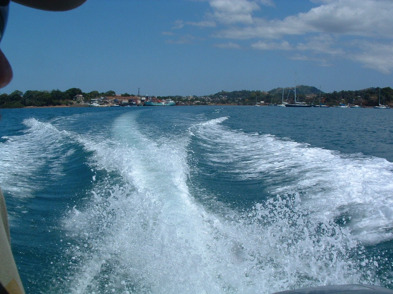 Wake behind fast moving Boat, Madagascar, Nosy Be, October 2006